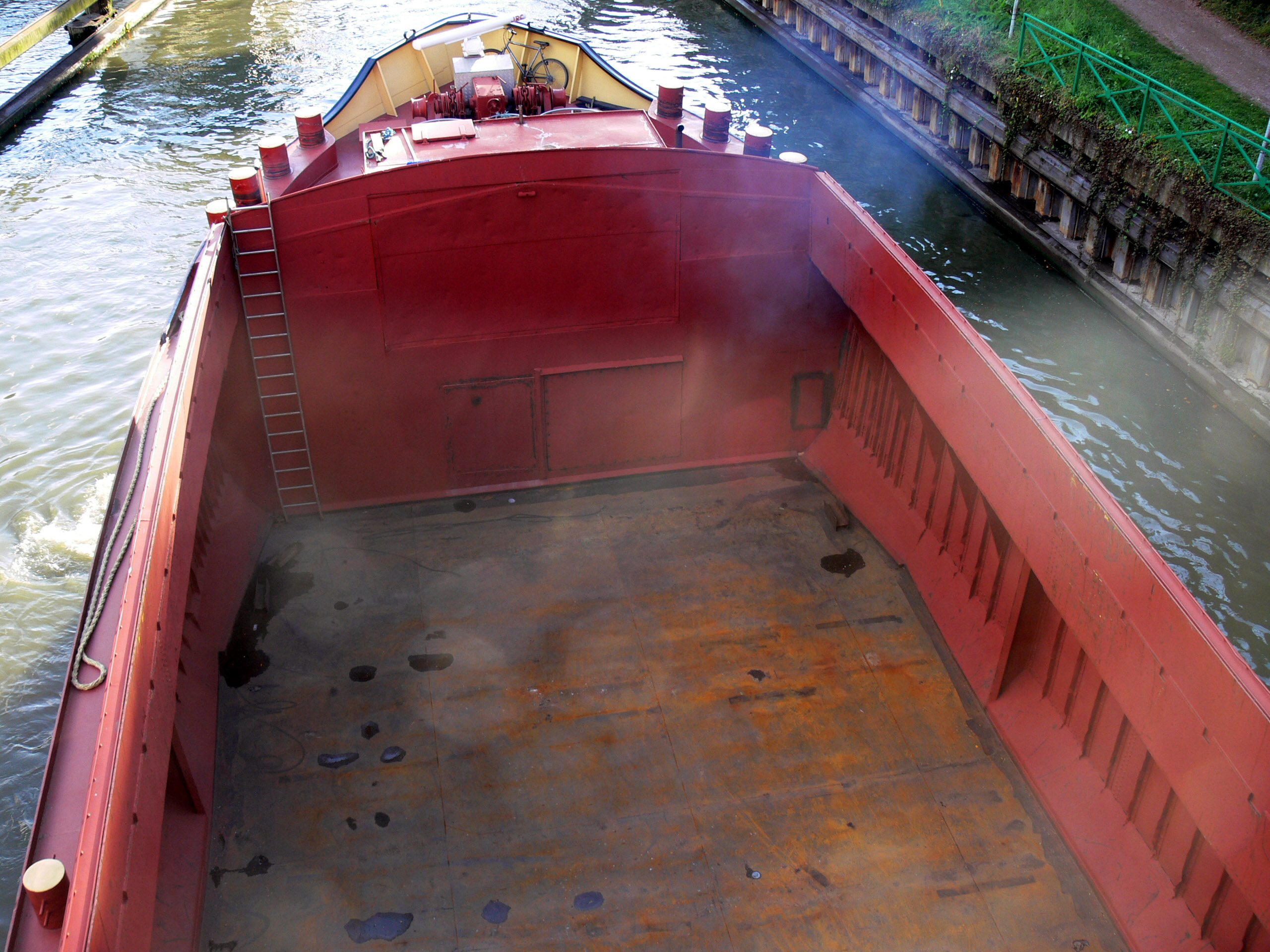 Barge entering the gates of the "Grand carré" on the Deûle channeled to lille (in north of france), upstream from the port of Lille. The smoke from the exhaust is visible on the image. The image shows the front of the stalls which is empty